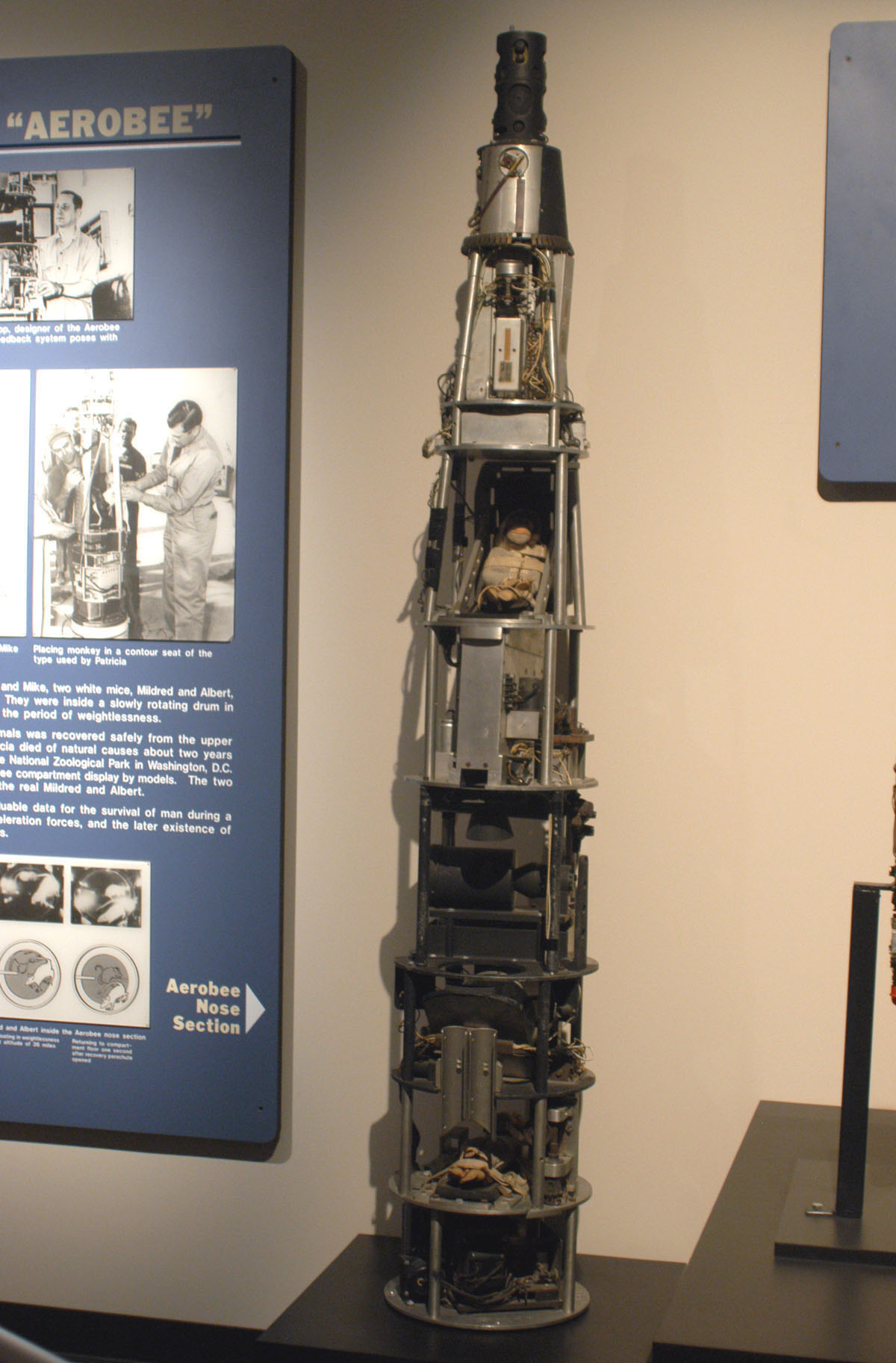 DAYTON, Ohio -- The Aerobee nose section on display at National Museum of the USAF. (U.S. Air Force photo)